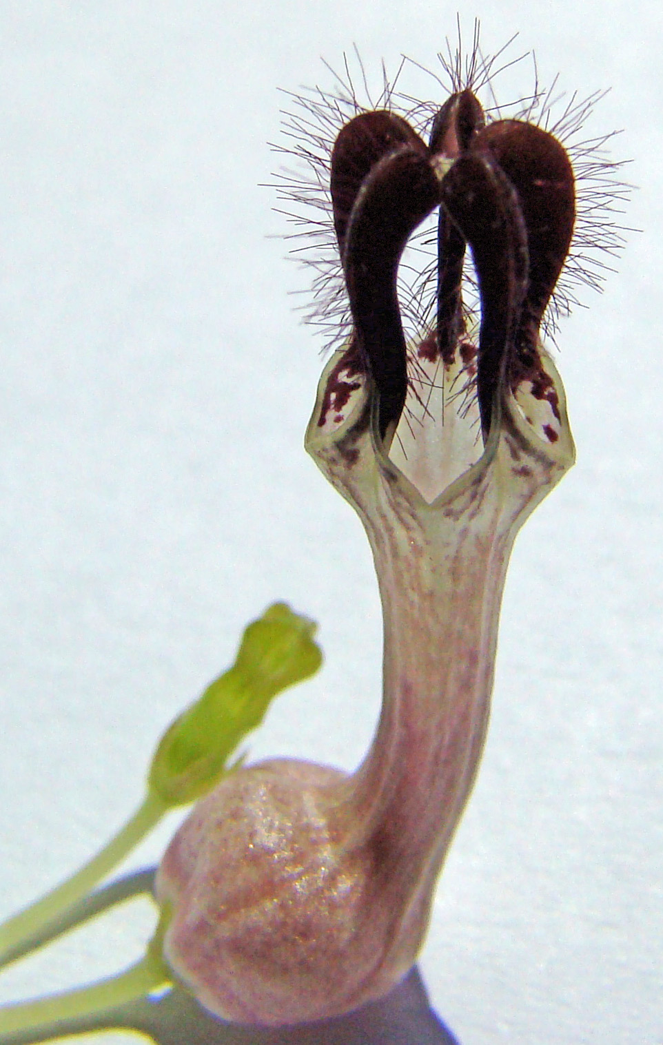 Ceropegia woodii flower